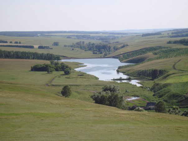 Pond on the Sedyak river beside village Sedyakbash.